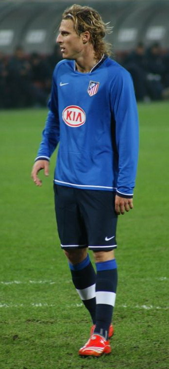 Diego Forlán